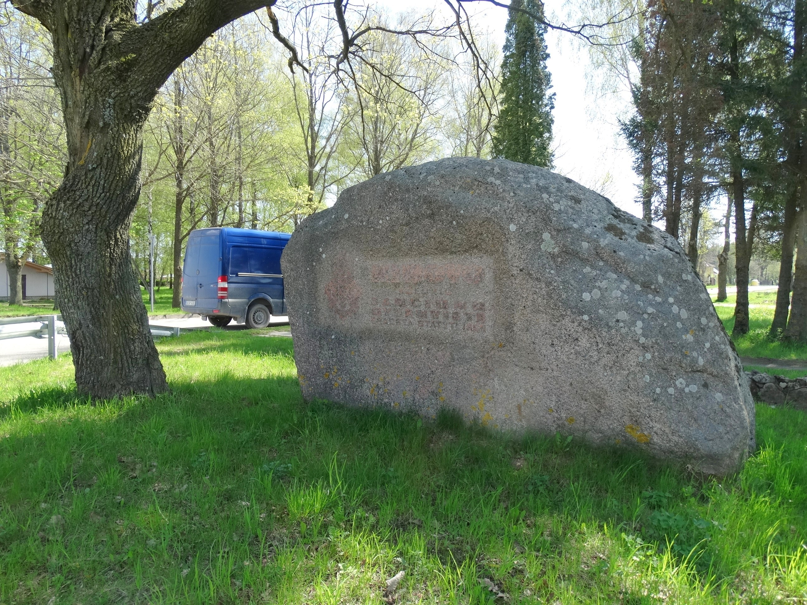 Stone, Jančiūnai, Šalčininkai District, Lithuania